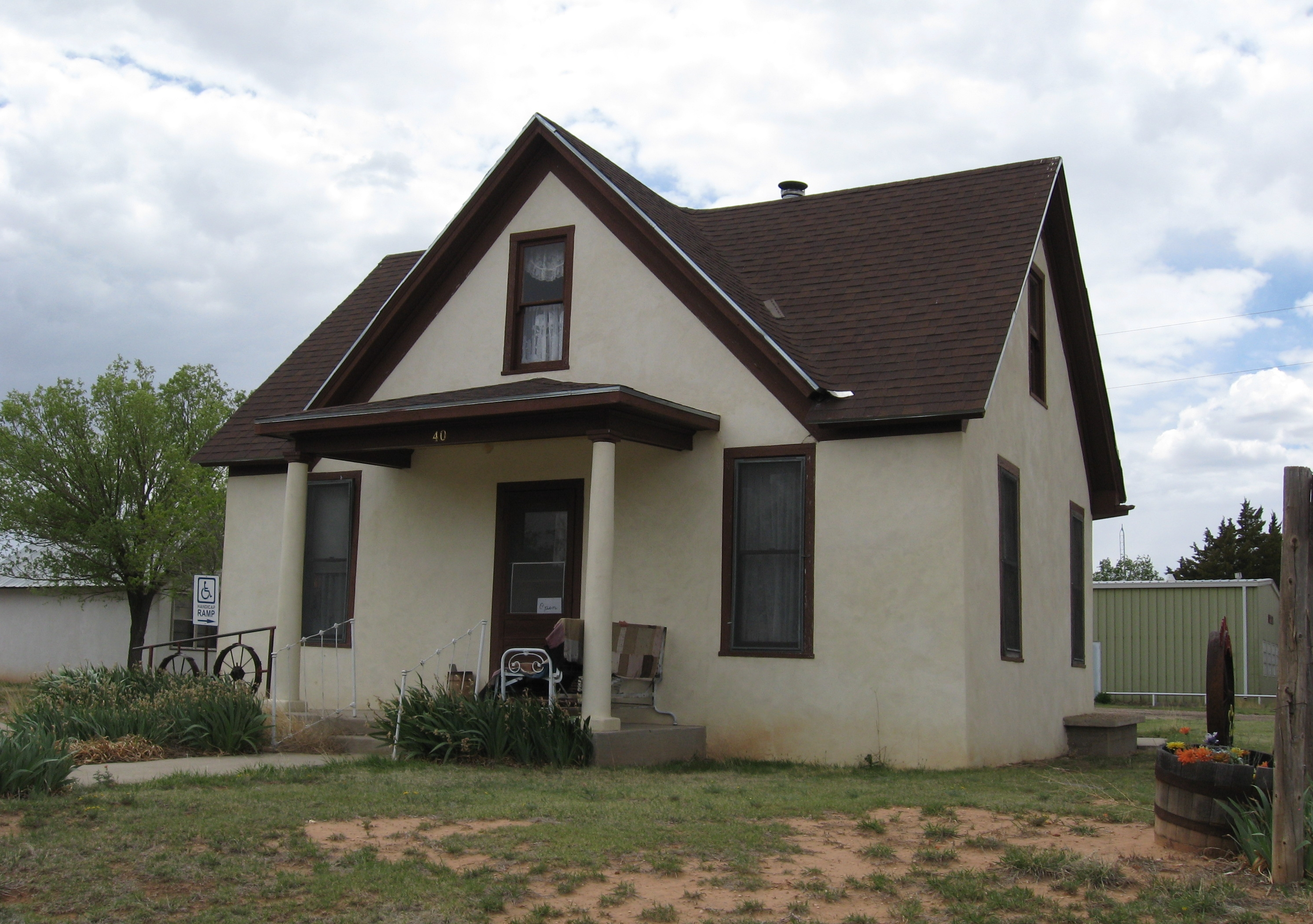 House in Amistad, New Mexico, U.S.. It was originally ordered from a Montgomery Ward catalog and now serves as a museum.